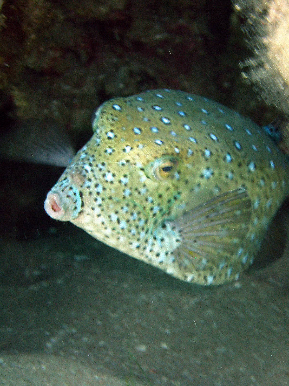 yellow boxfish taba egypt